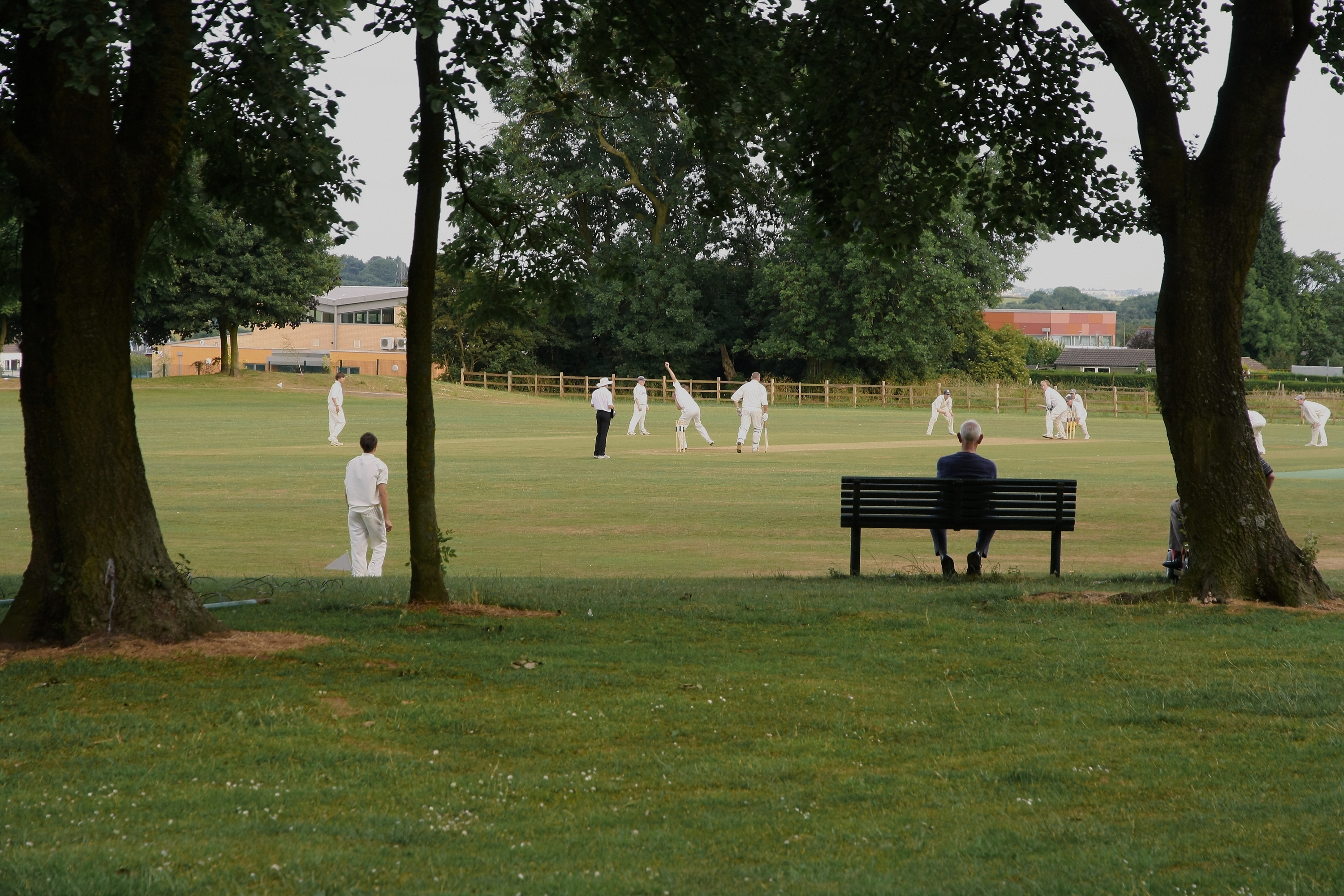 Claycross cricket ground